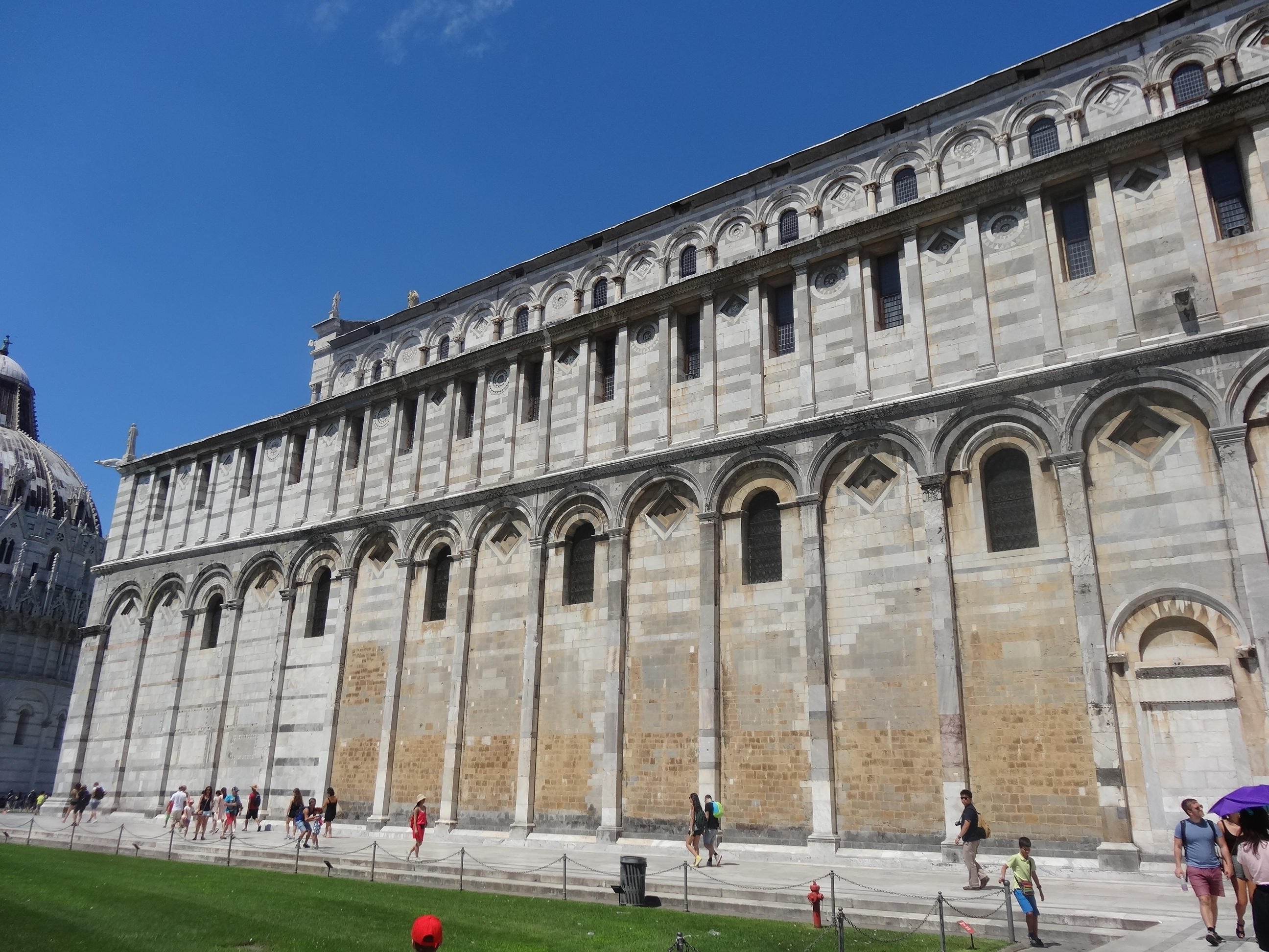 Exterior of the Cathedral (Pisa)